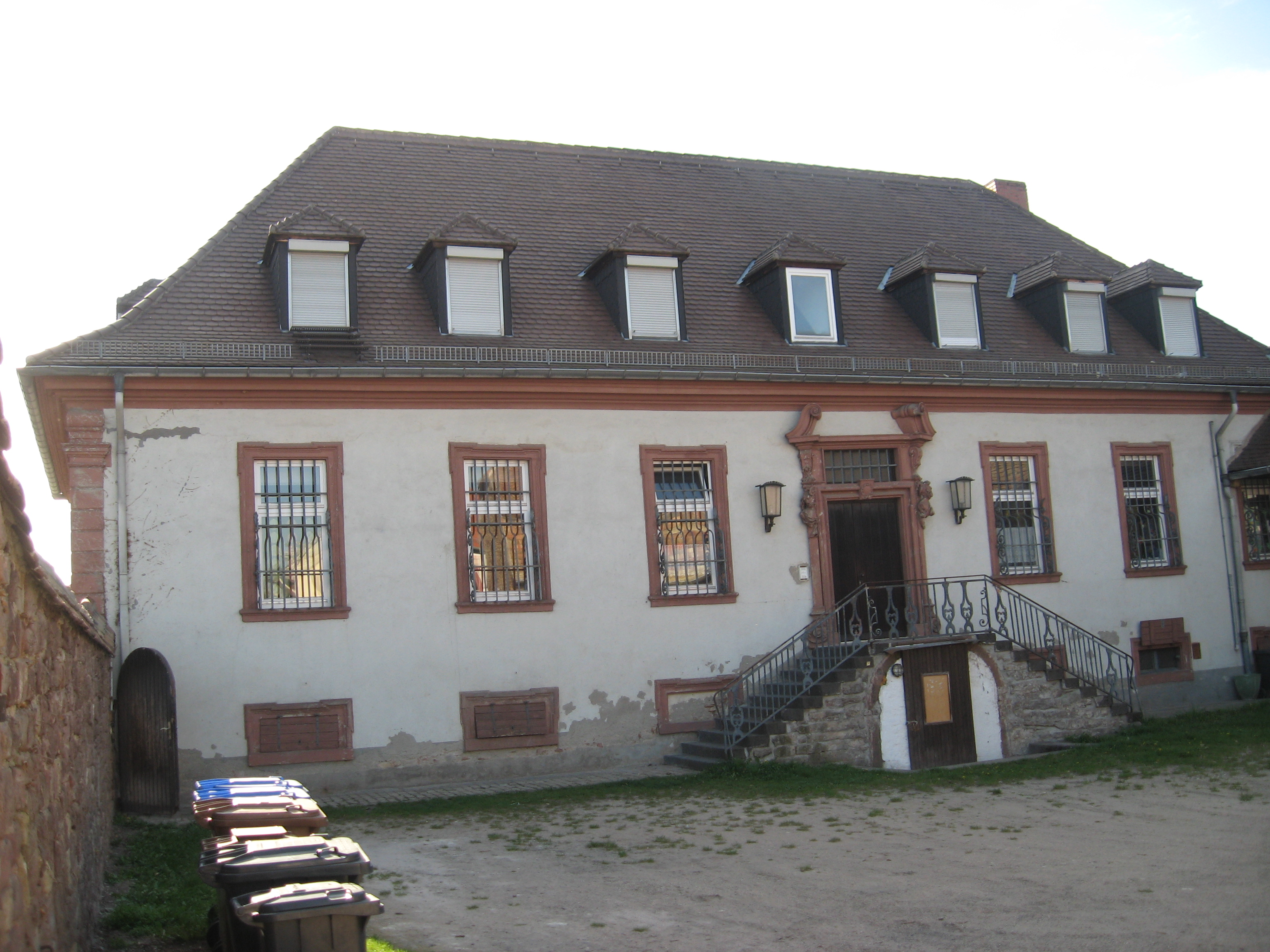 Pfarrer-Johannes-Wilhelm-Weil-Straße 4, Worms, Germany